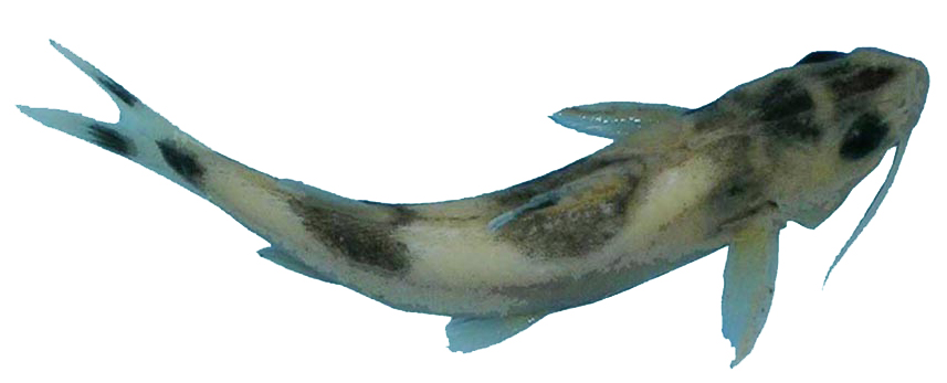 A fresh water fish species from Kathani river of Wainganga basin from the Gadchiroli district of Maharashtra state India. Nangra ichthya is a mispelling of Nangra itchteea (Sykes, 1839) which is a synonym of Gagata itchkeea (Sykes, 1839) (FishBase)